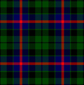 Morrison tartan